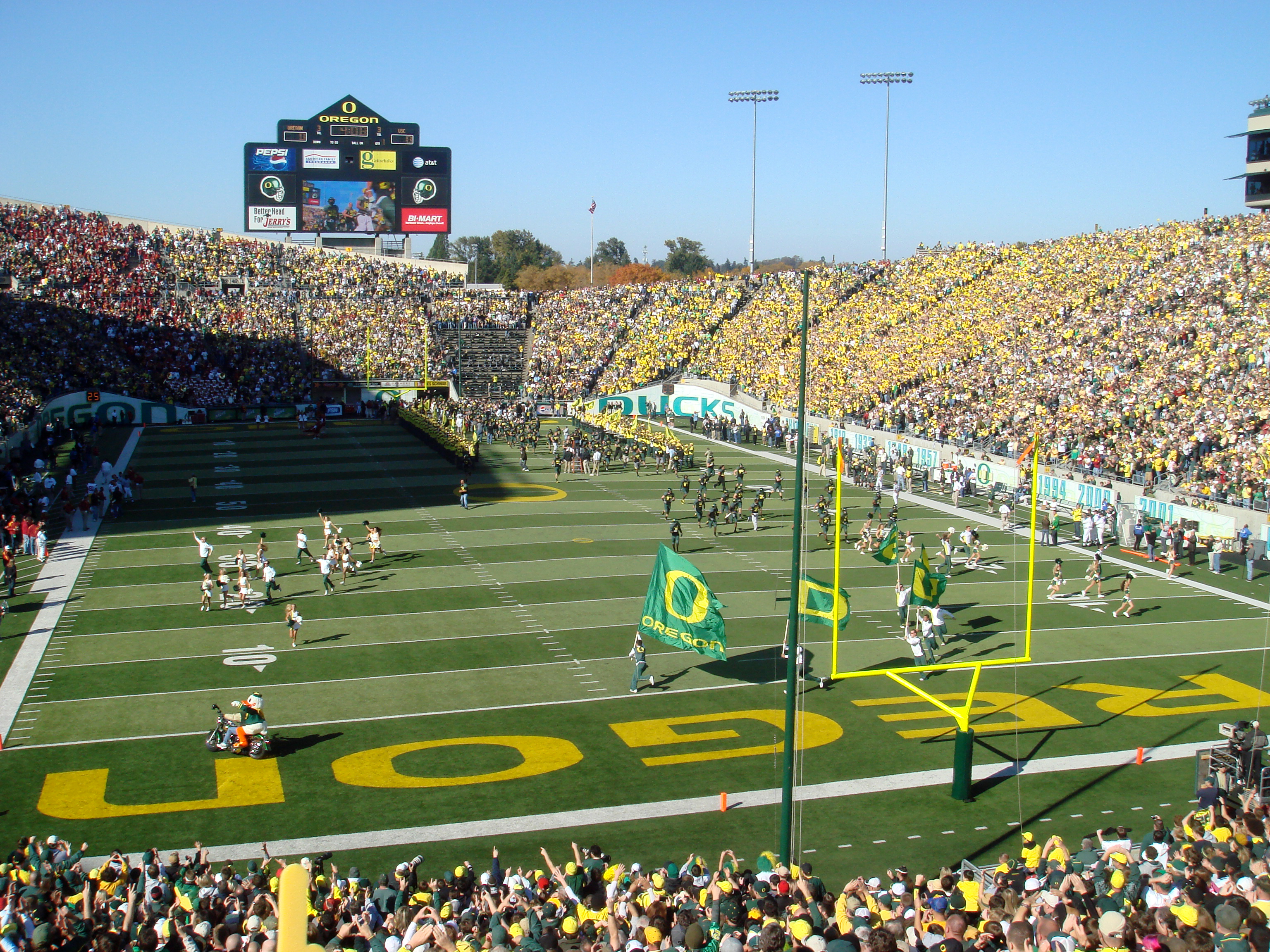 Autzen Stadium, home of theUniversity of Oregon Ducks football, during the 2007 season game between the USC Trojans and the Ducks; it was the first time two top-10 teams had played at Autzen in its 41-year history and broke the stadium attendance record with 59,277. The Ducks, slightly favored, won the game: 24–17.